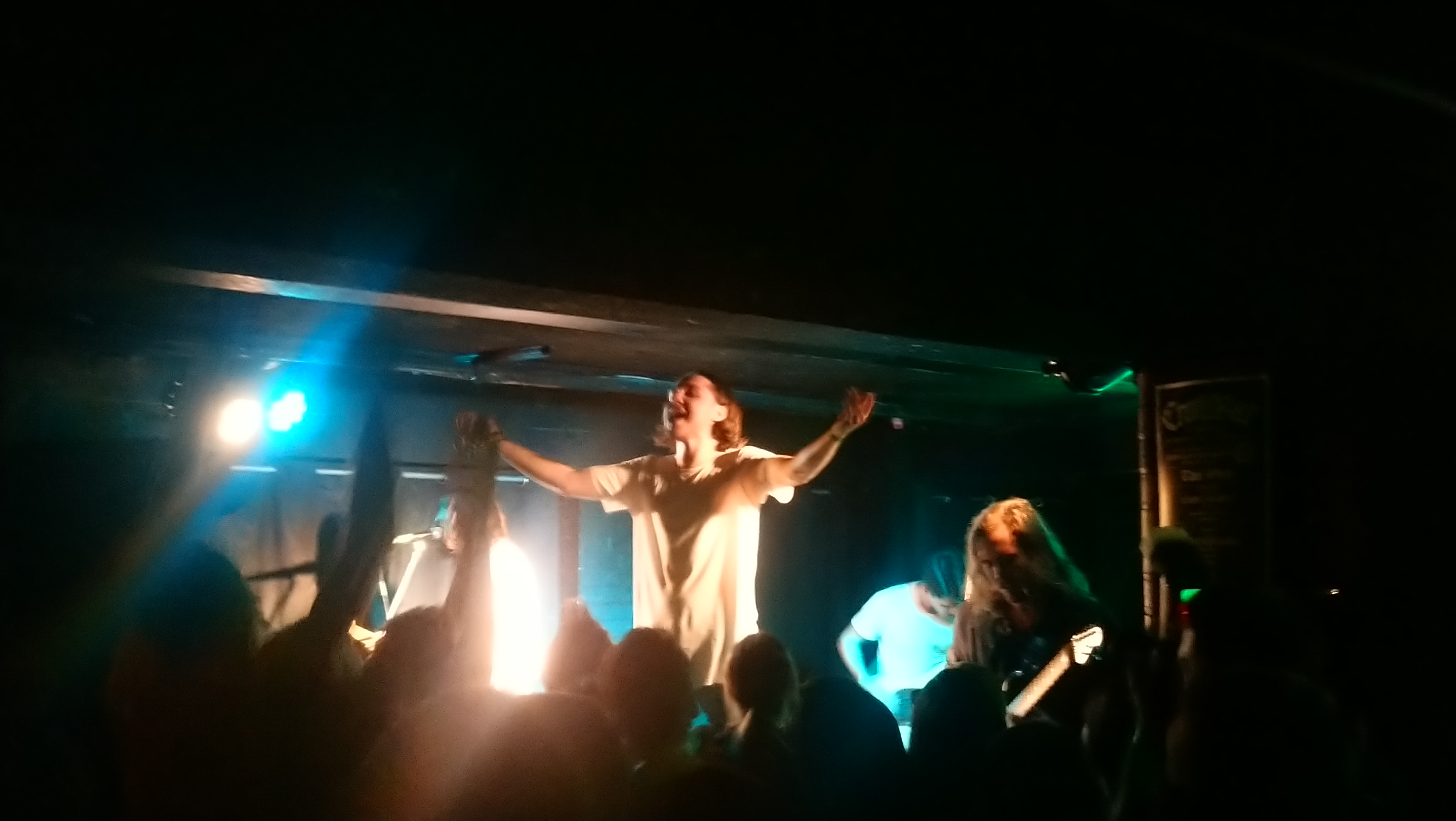 Windwaker performing in 2019